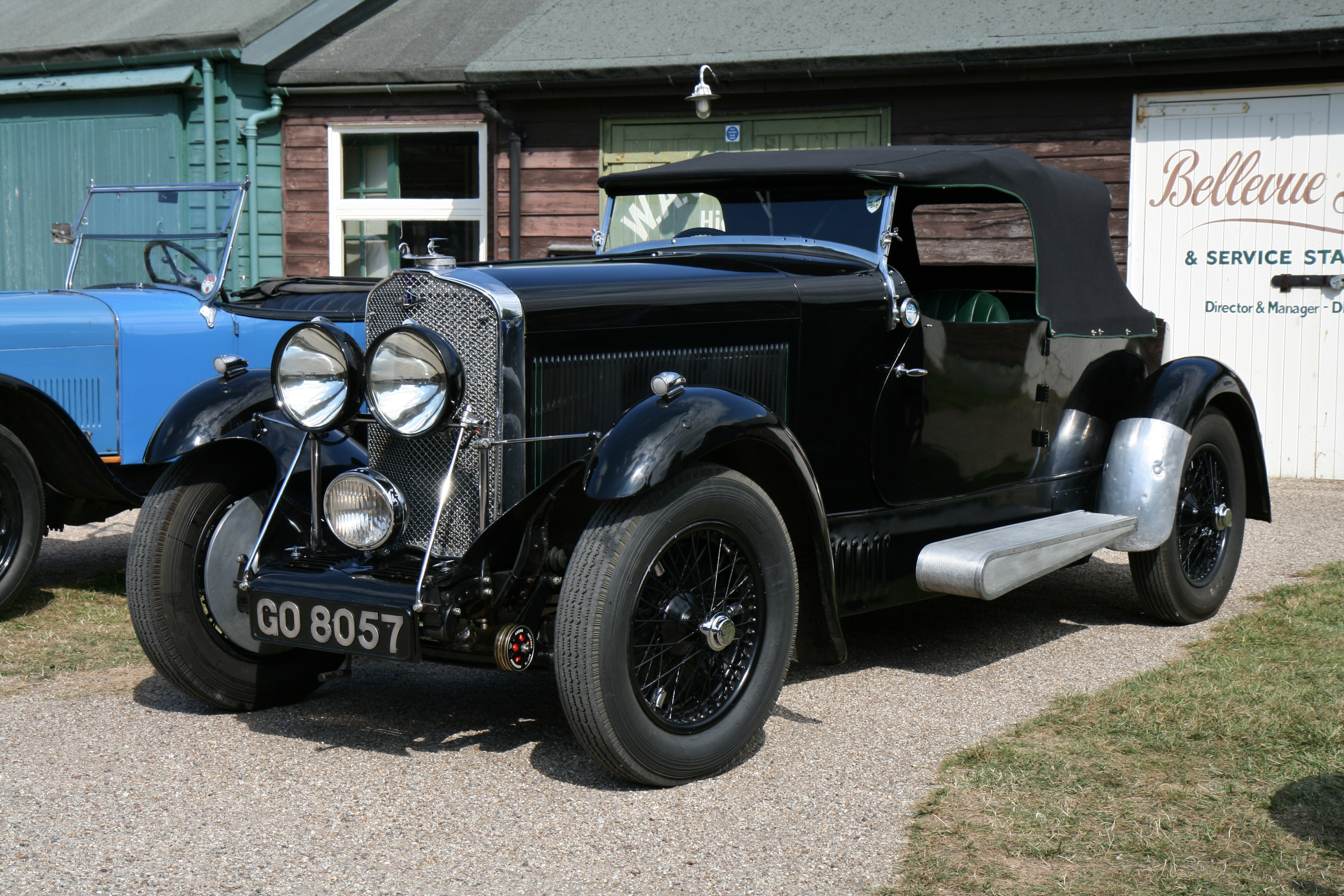 1930 Talbot 75-90 tourer (DVLA) first registered 25 March 1931, 2300 cc Brooklands Reunion 14 August 2016